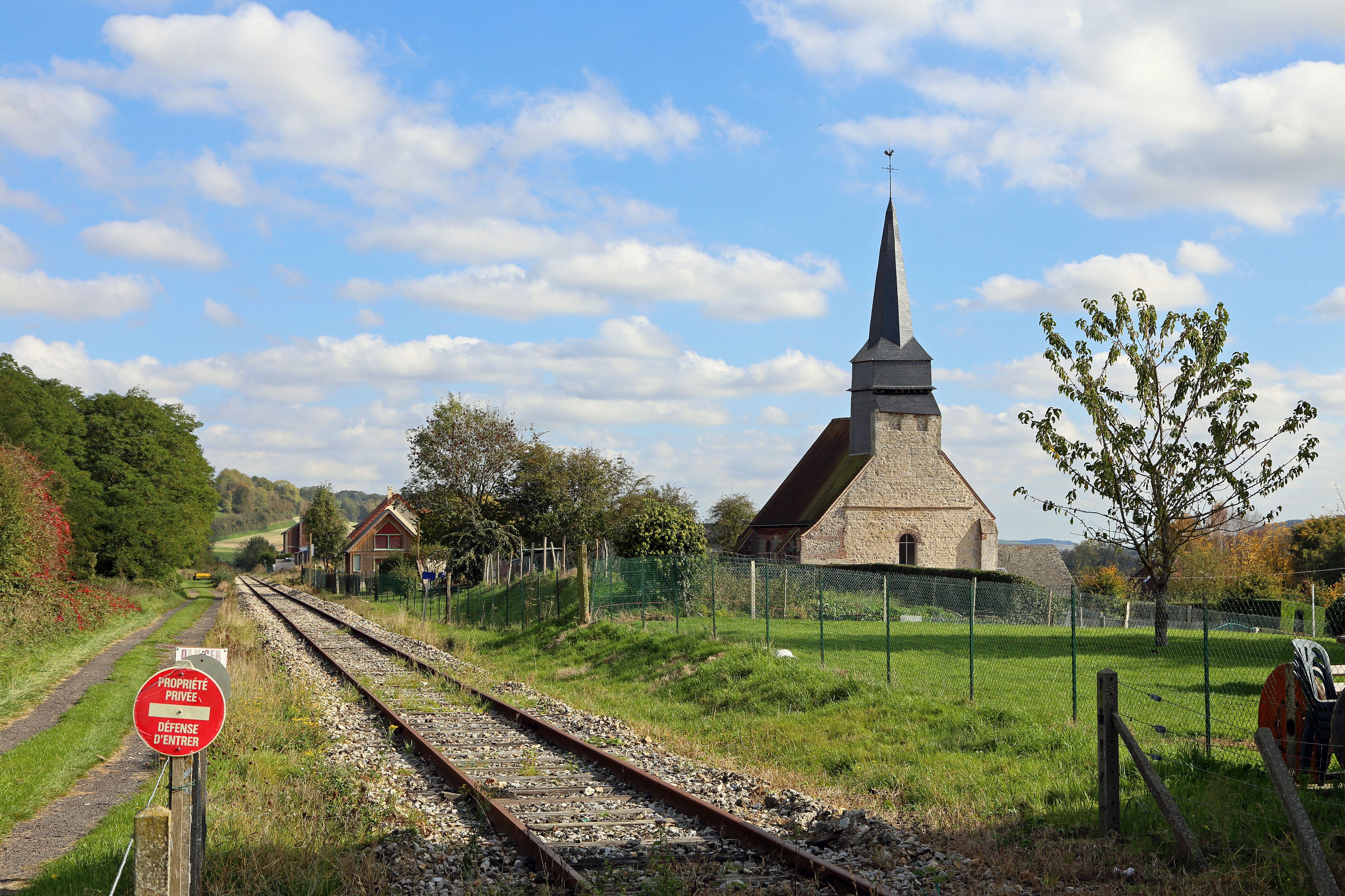 Sauchay-le-Bas (Seine-Maritime department, France): railway line number 356 000 from Eu to Dieppe, also called "from Rouxmesnil to Eu" or "from Dieppe to Le Tréport". Right: the church of Sauchay-le-Bas.